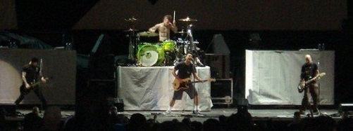 +44 Perform Live